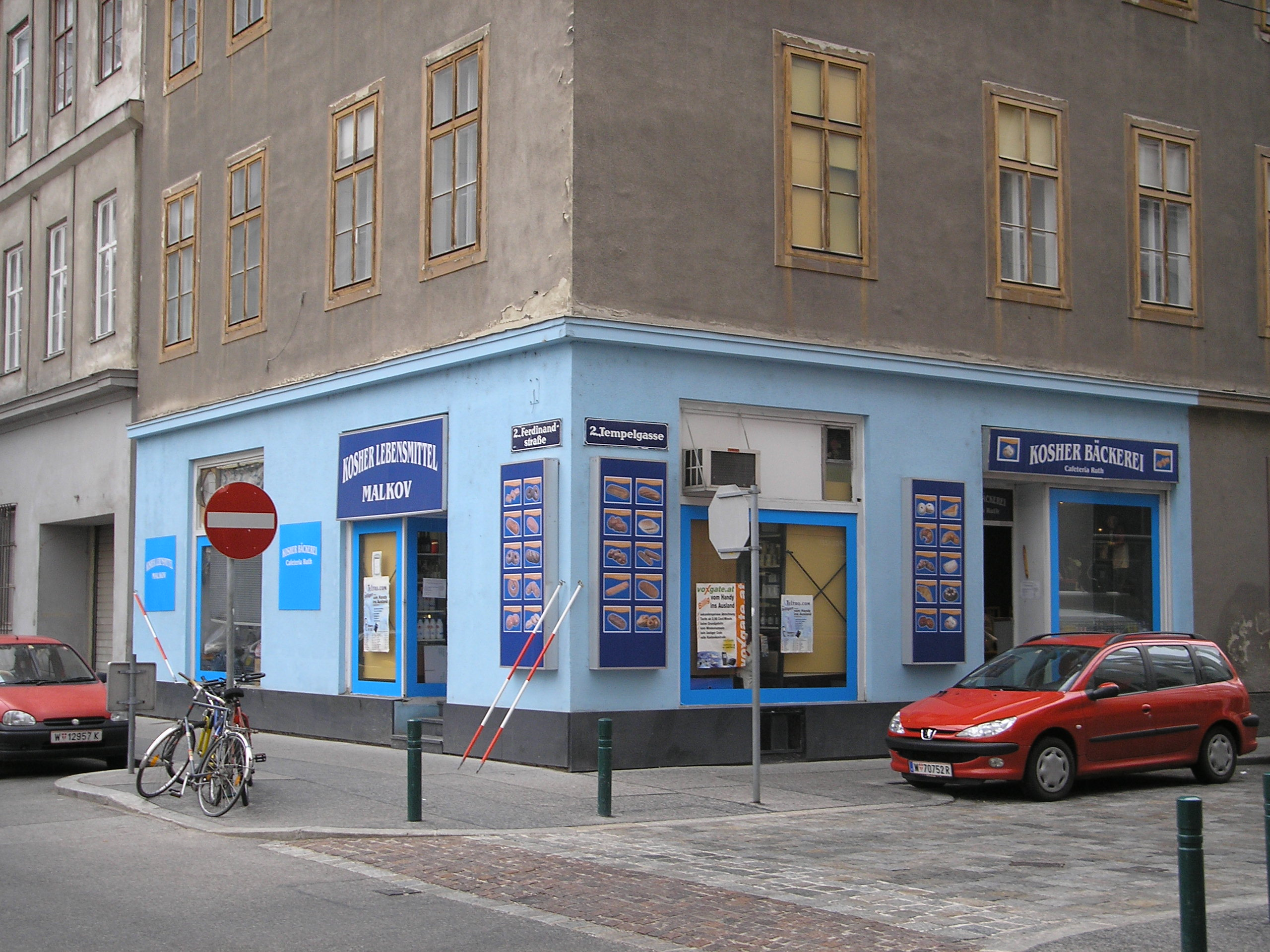 Description: Kosher store in Vienna, Tempelgasse in Leopoldstadt. Source: self-made, I release it into the public domain. Gryffindor 16:27, 3 April 2006 (UTC)